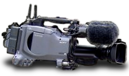 Sony XDCAM Camcorder (DVCAM) PDW-510